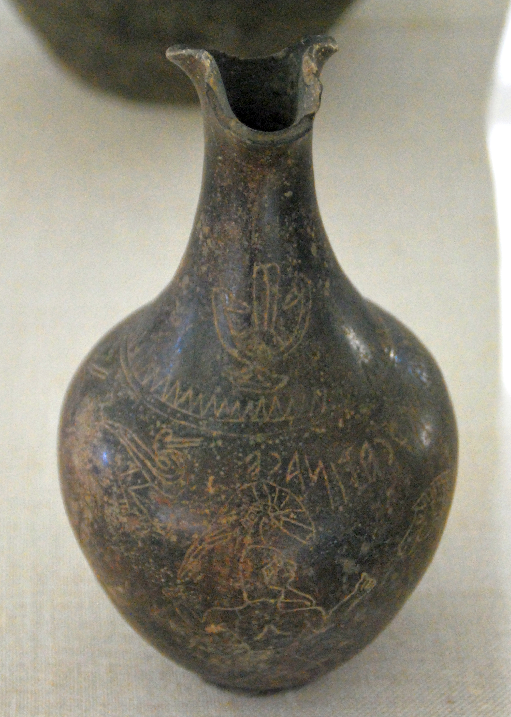 Very fine Etruscan Impasto jug with incised images, imitating phoenician examples from metal, handles missing; phoenician palmette on the neck, belly image shows warrior between a horse and a feeding goat, over them two from right-to-left walking birds as well as the inscription Mi MAMARCE ZINACE, probably a maker's signature of a potter Mamarce; about 640/20 BC; now Antikensammlung Würzburg, inventory number H 5724.